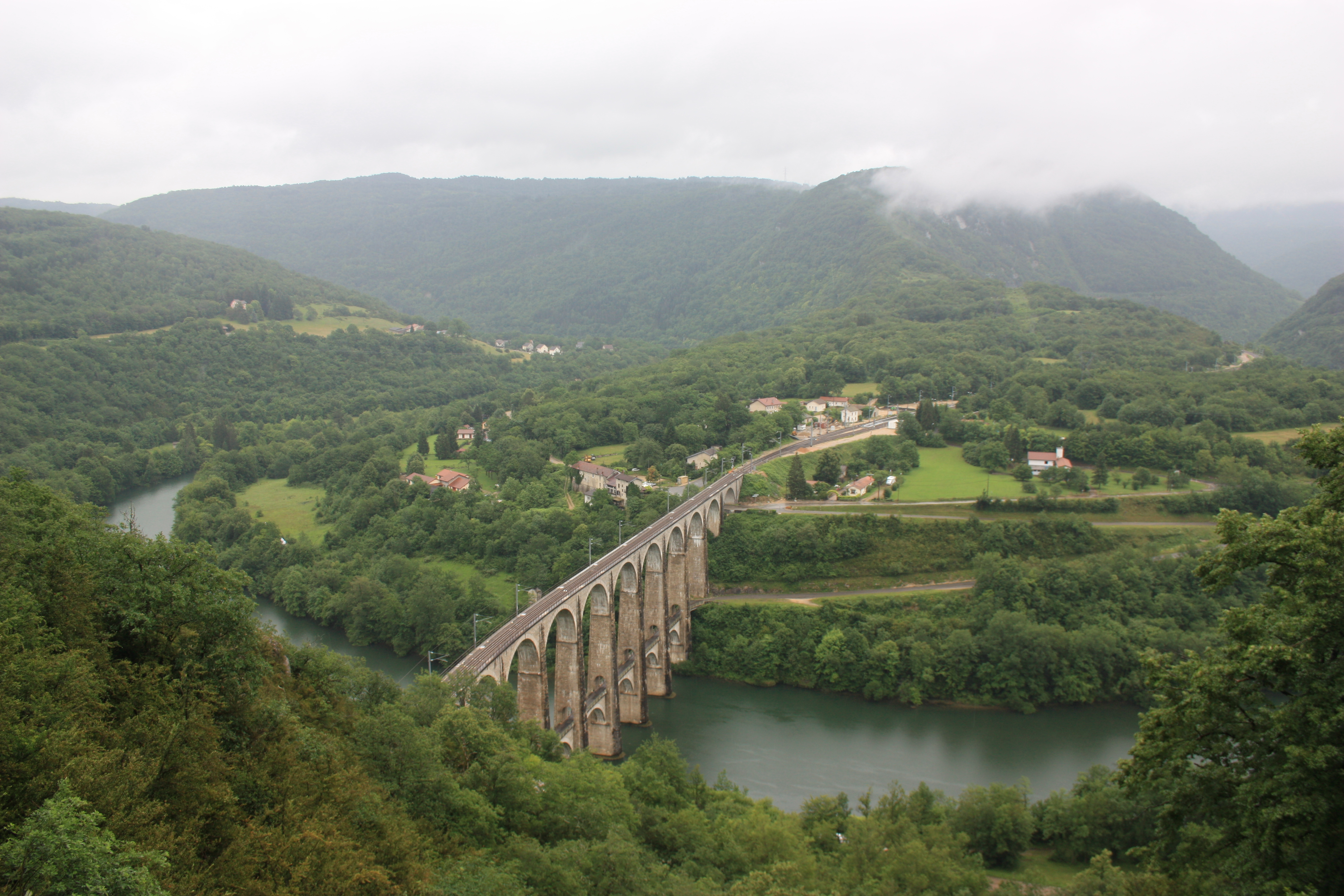 Bridge of Cize-Bolozon